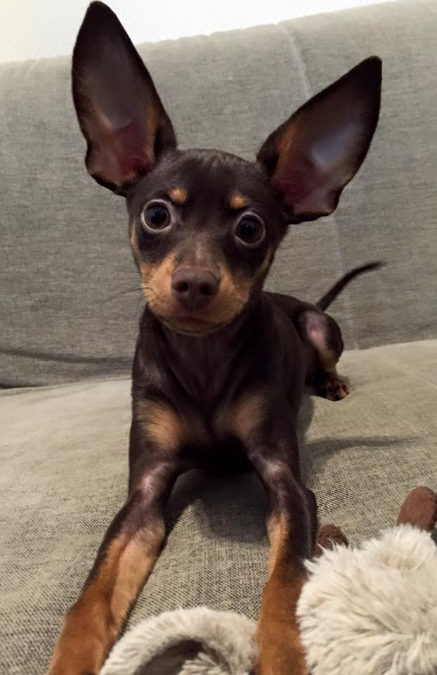 Russian Toy, short hair, smooth coat, brown & tan